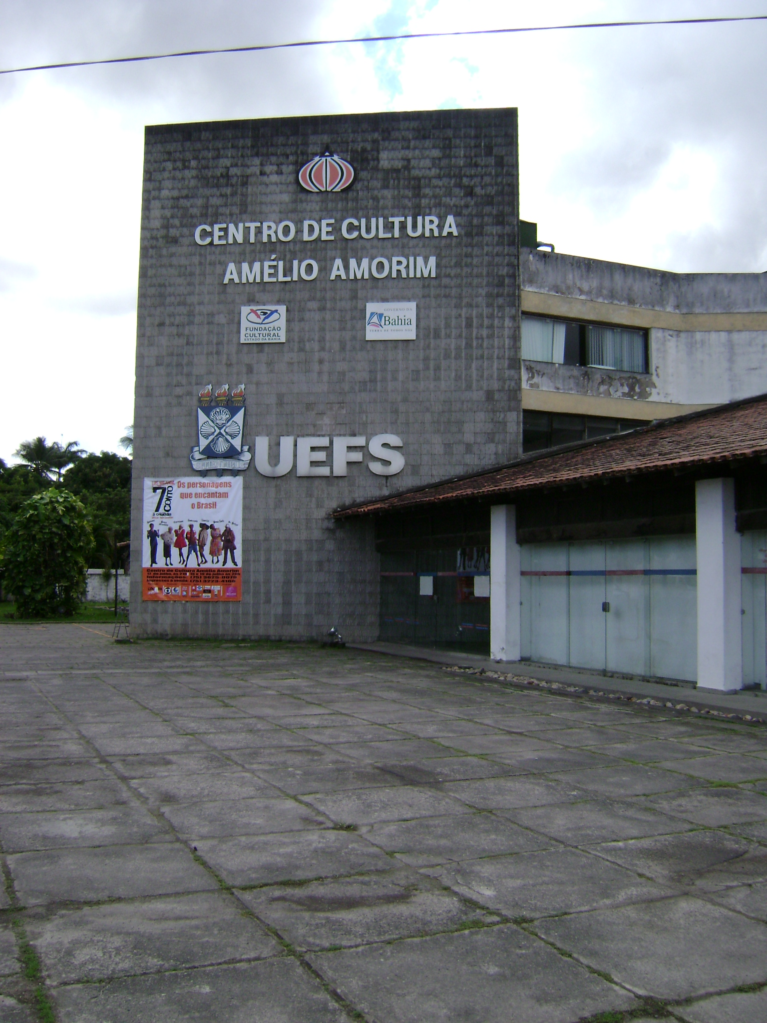 Center of Culture Amélio Amorim, of Universidade Estadual de Feira de Satanana.